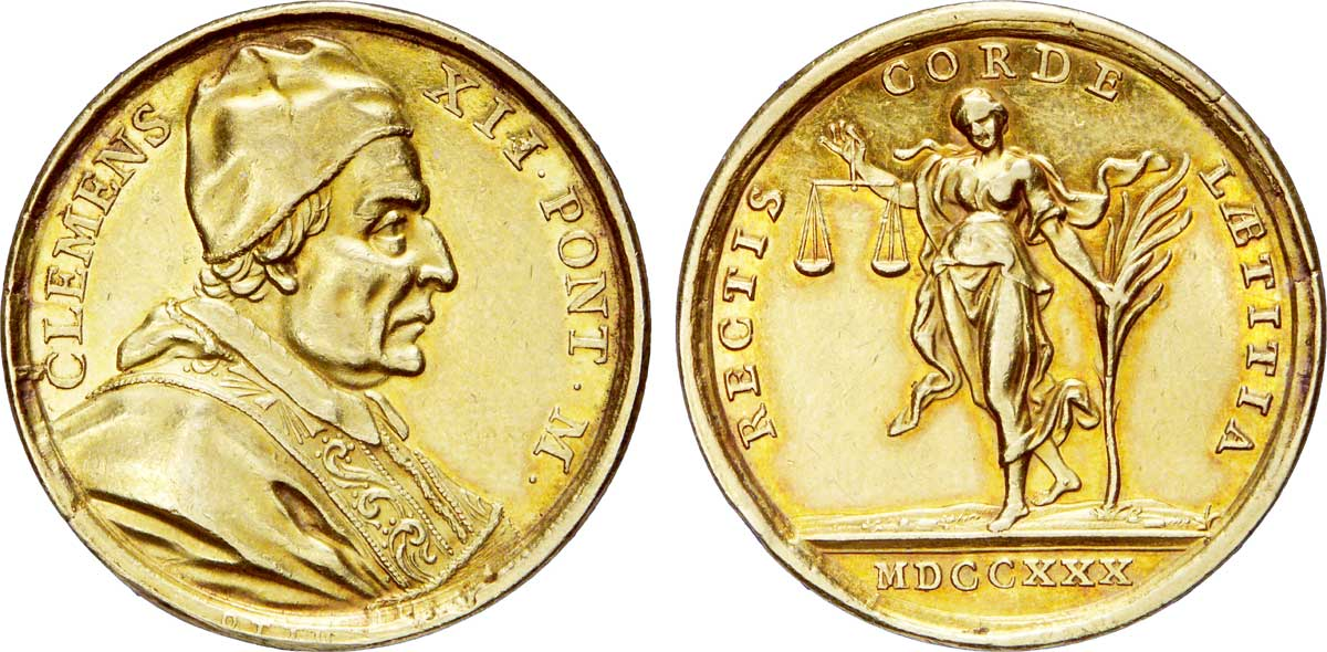 Médaille en or à l'effigie du Pape Clément XII, 1730